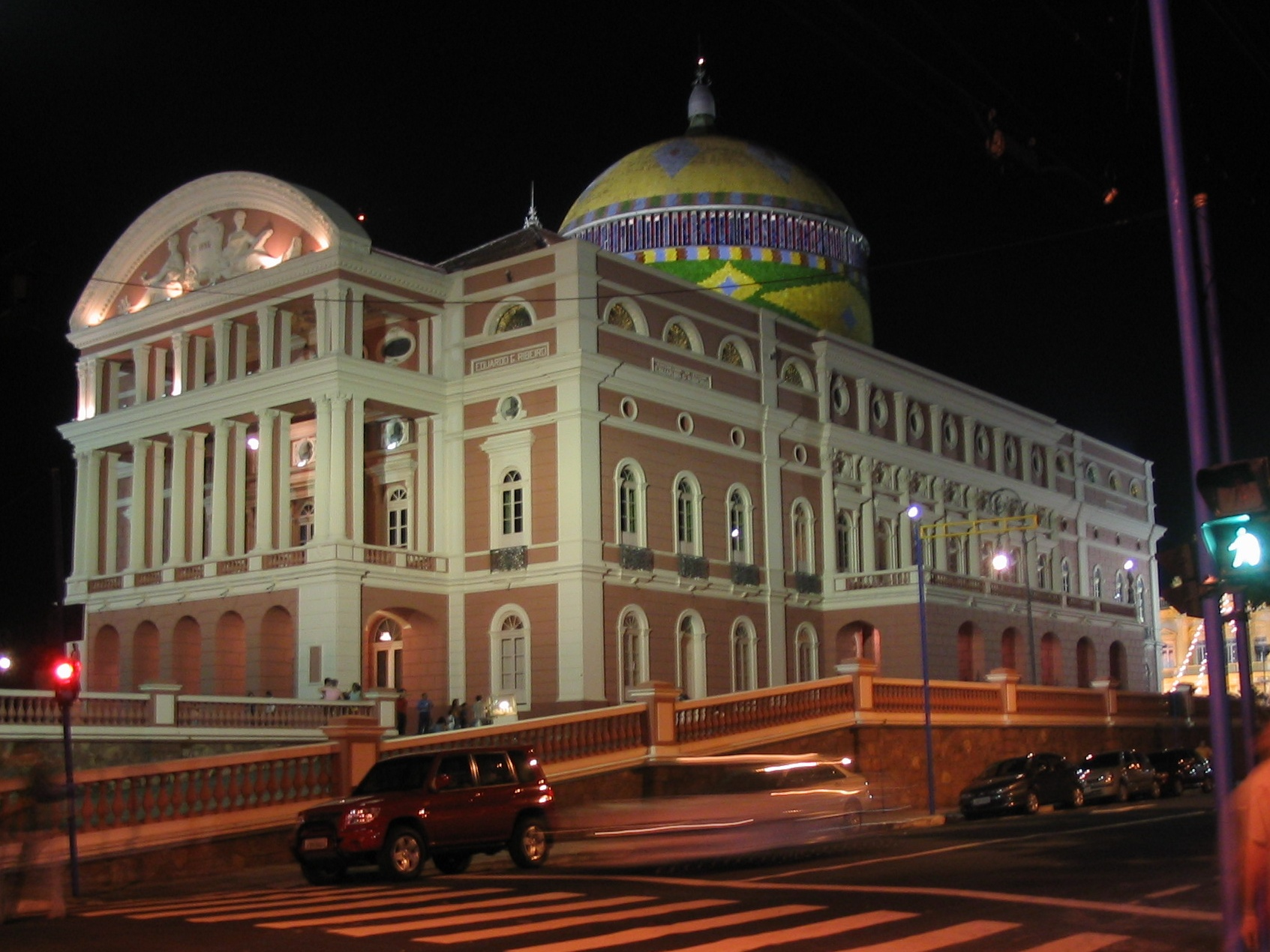 Amazon Theatre at night, Manaus, Brazil